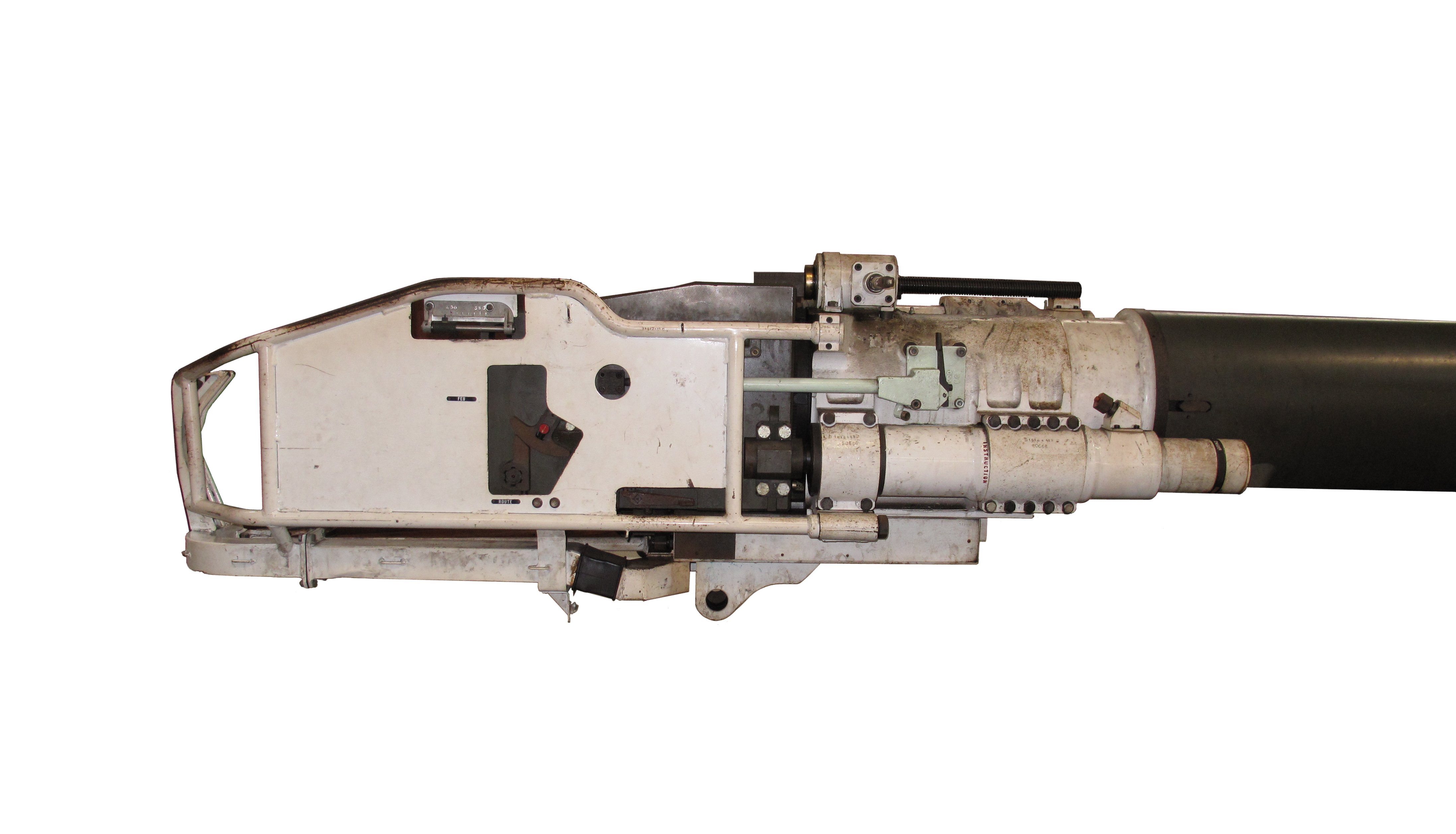 105 mm Modèle F1 gun of an AMX-30